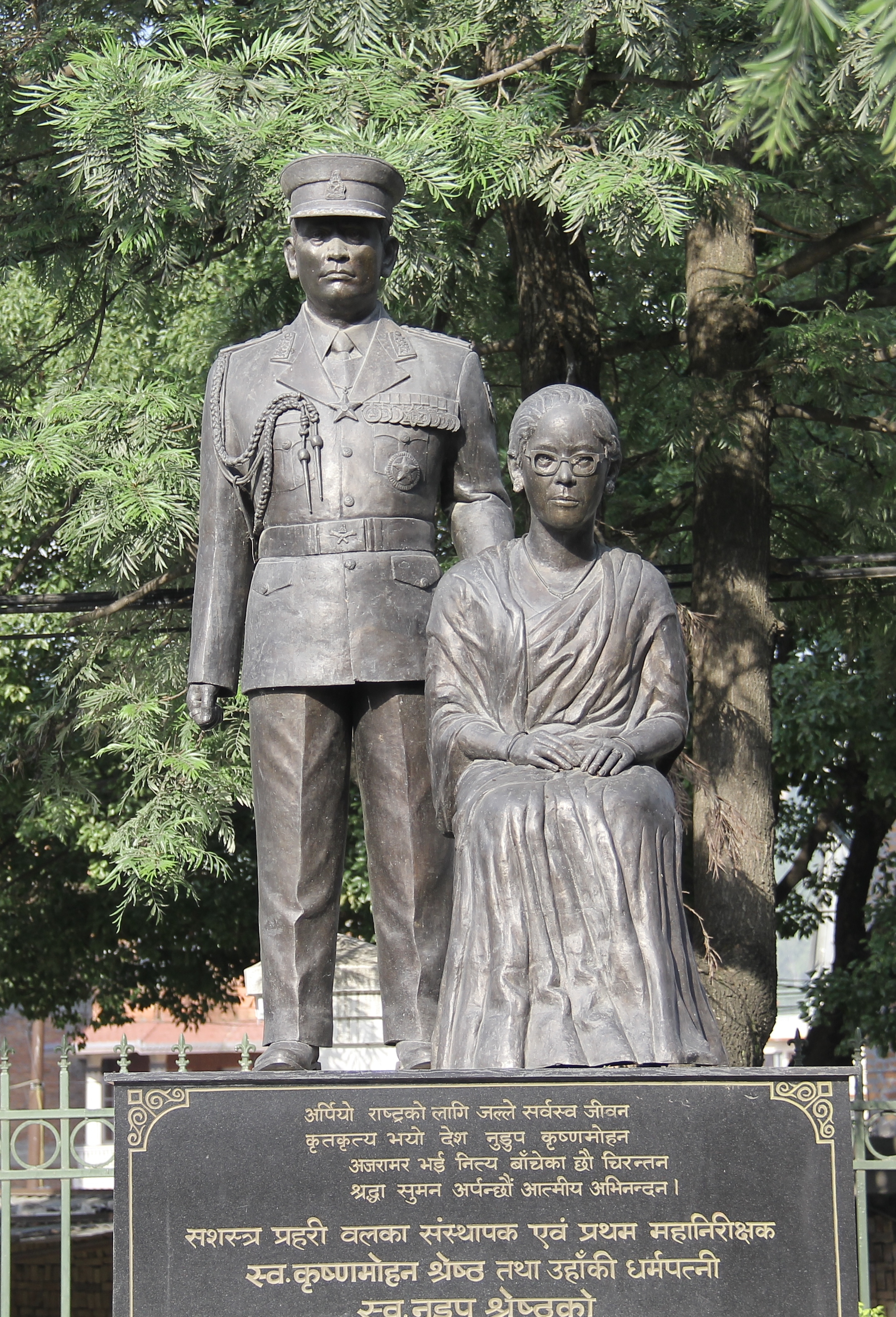 Statue of Krishnamohan and his wife Nudup at the place they were shut to death.